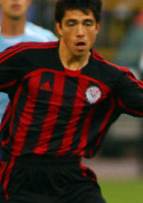 Ildar Akhmetzyanov in action for FC Amkar